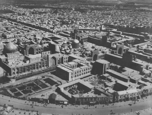 Imam Reza shrine before development